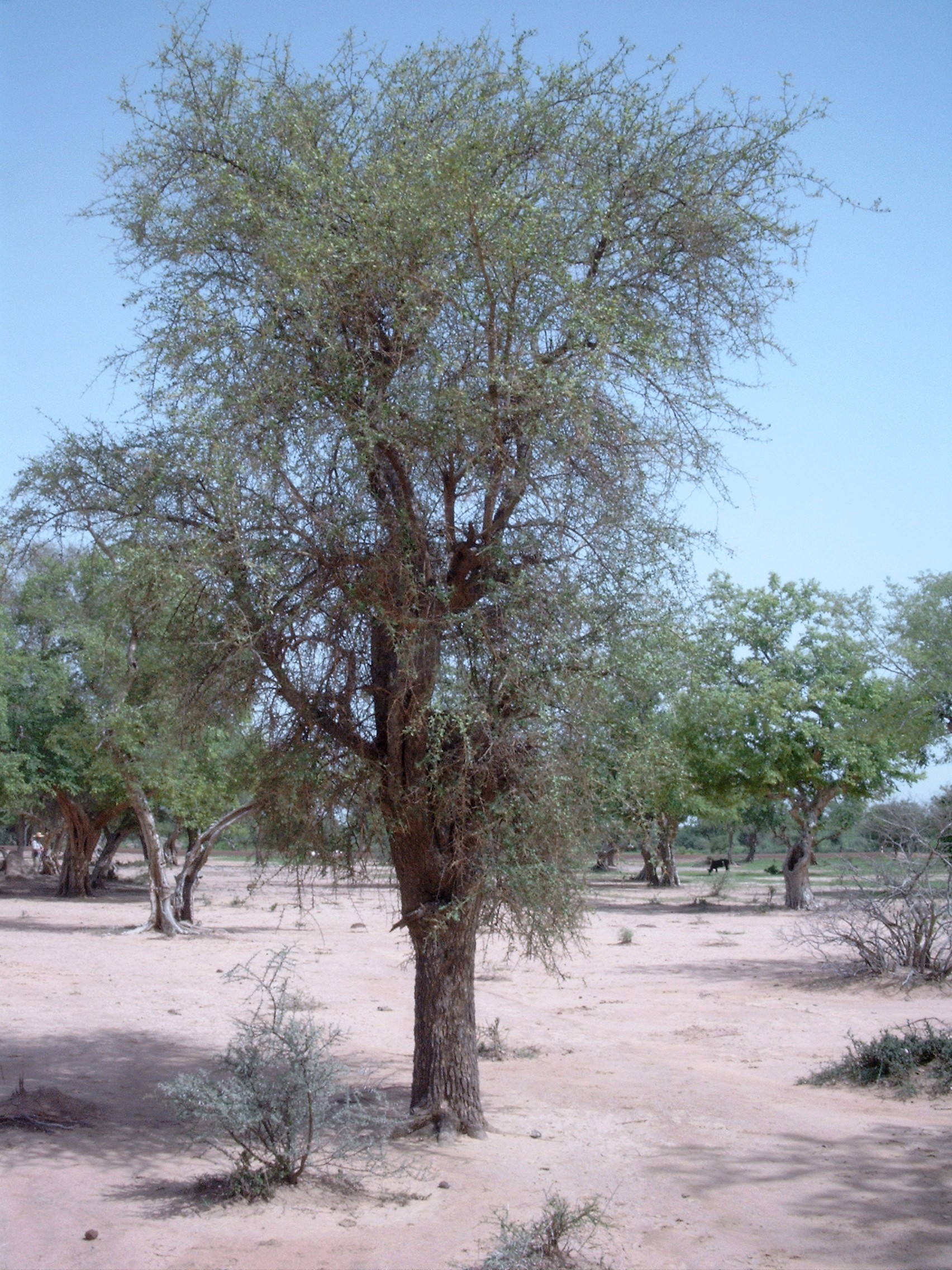 Balanites aegyptiaca, near Fadar-Fadar, Oudalan, Burkina Faso.